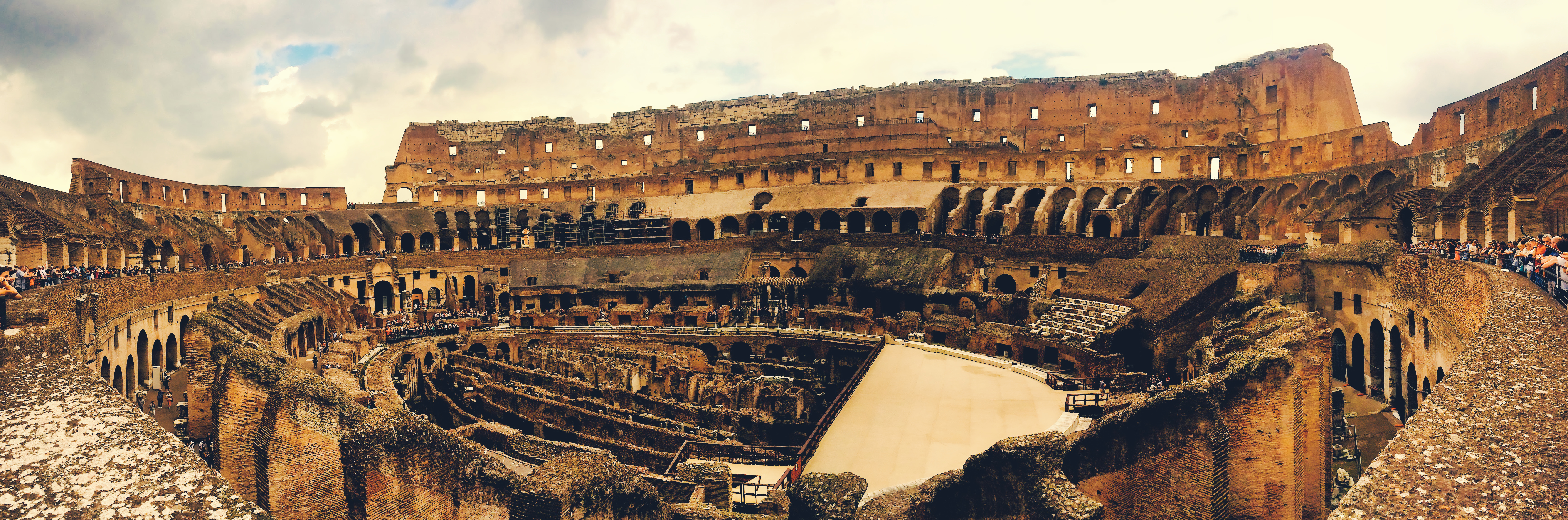 Interior panorama